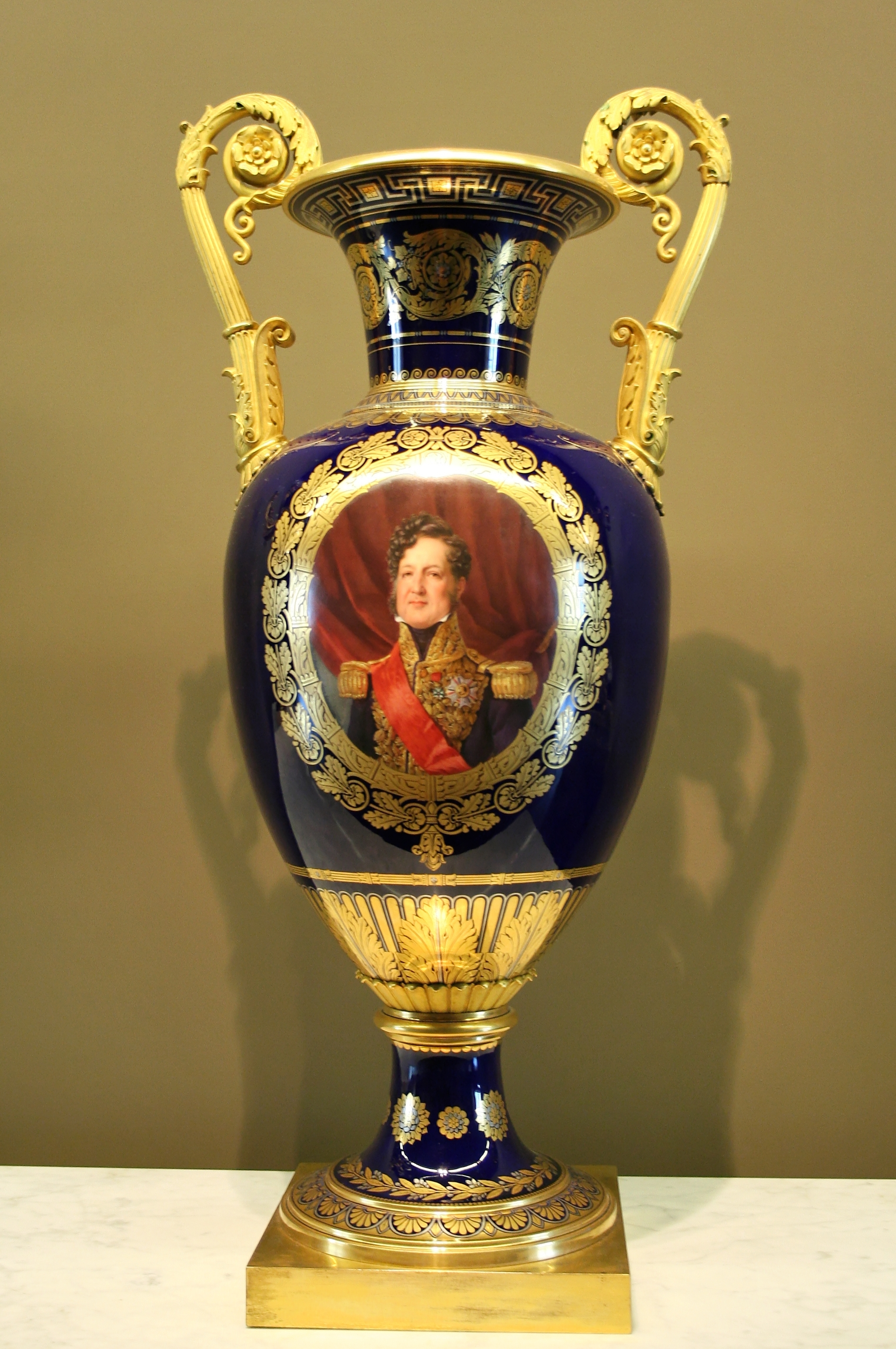 Egg vase with the portrait of King Louis-Philippe of France. Hard-paste porcelain and gilt bronze, 1837.